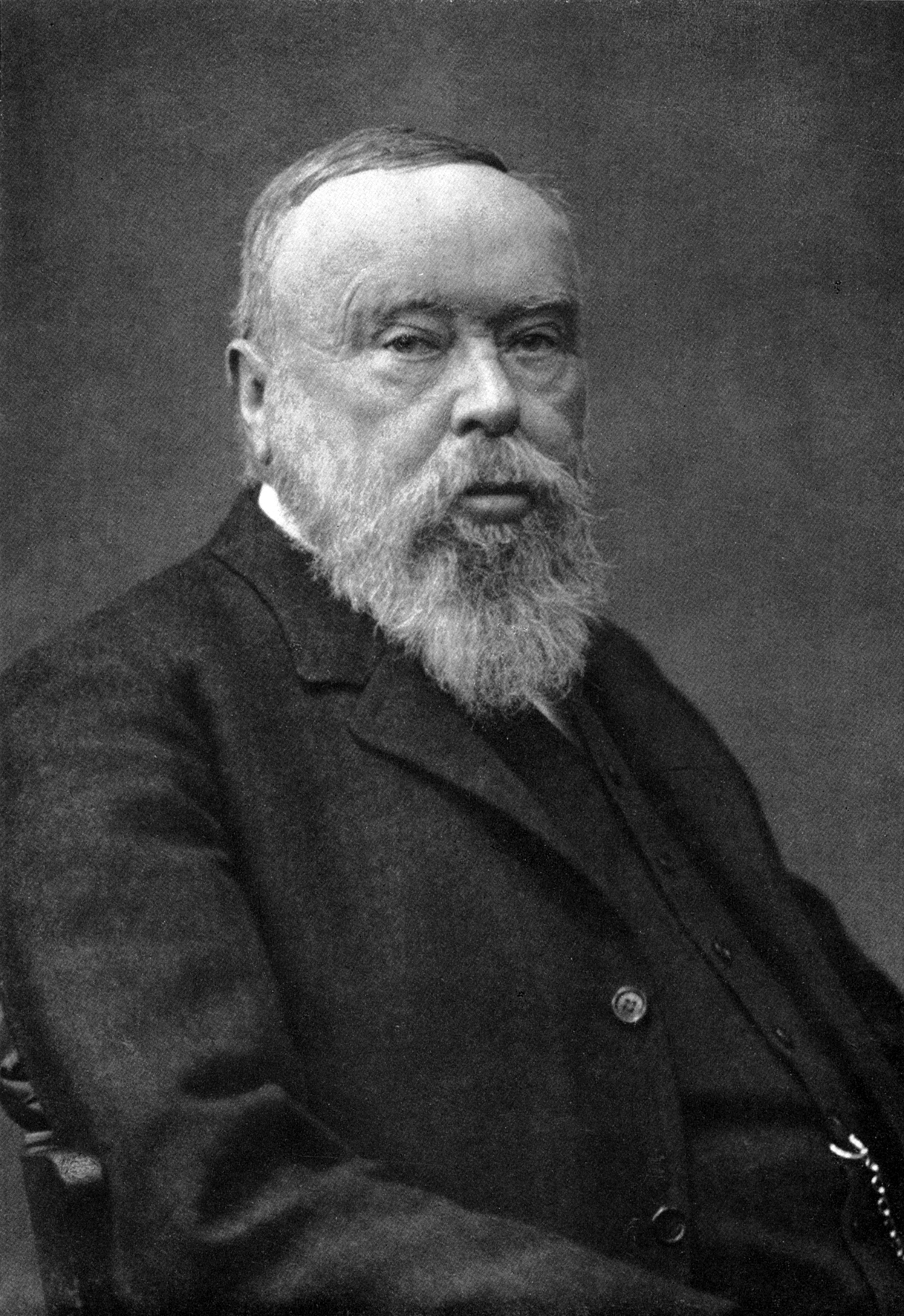 Franz Ernst Schütte (1836–1911), entrepreneur from Bremen, Germany.